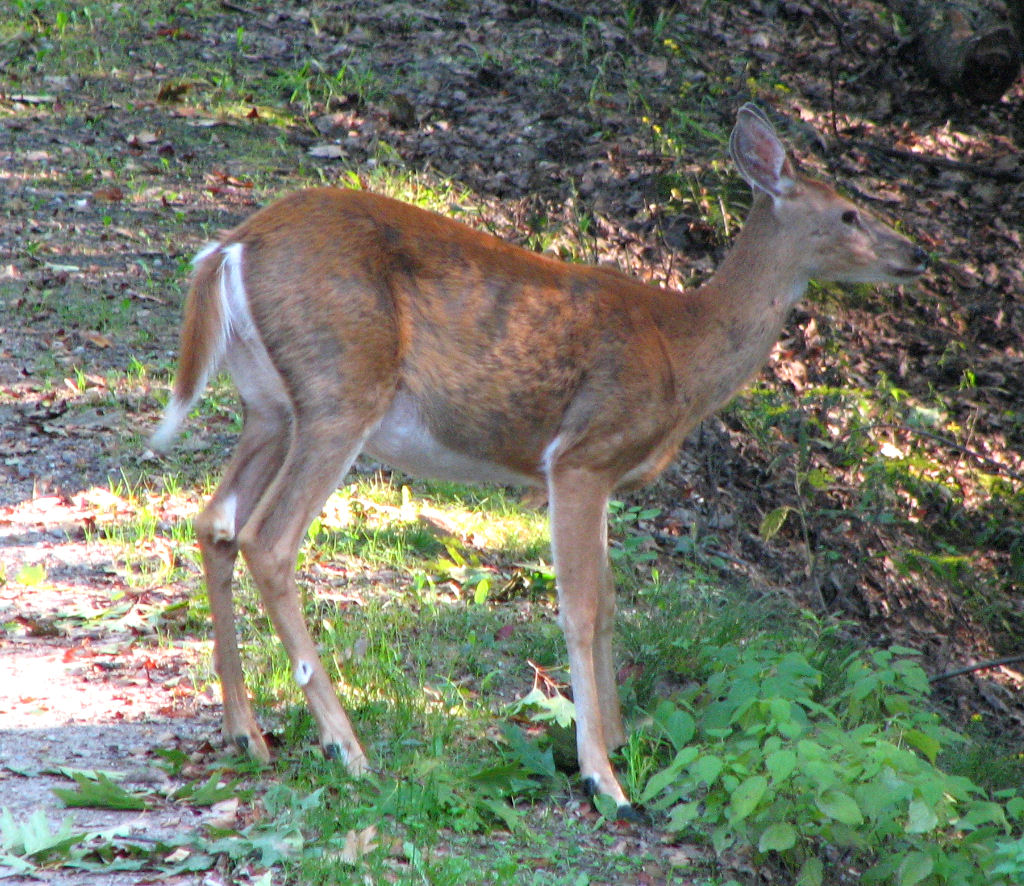 White-tailed Deer (Odocoileus virginianus), doe (female), Murphys Point Provincial Park, Perth, Ontario